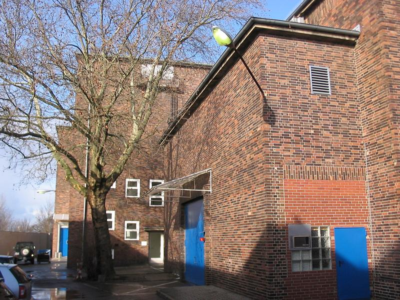 Listed studio from Universum Film AG (today Berliner Union-Film) at the Oberlandstraße (street) in Berlin-Tempelhof.